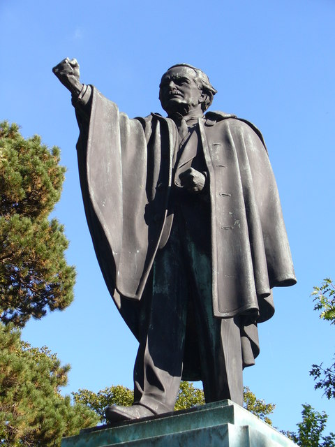 David Lloyd George Statue of the famous Welsh orator who became Prime Minister of UK, 1916-22. The statue is in Cardiff's Gorsedd Gardens, facing the National Museum.